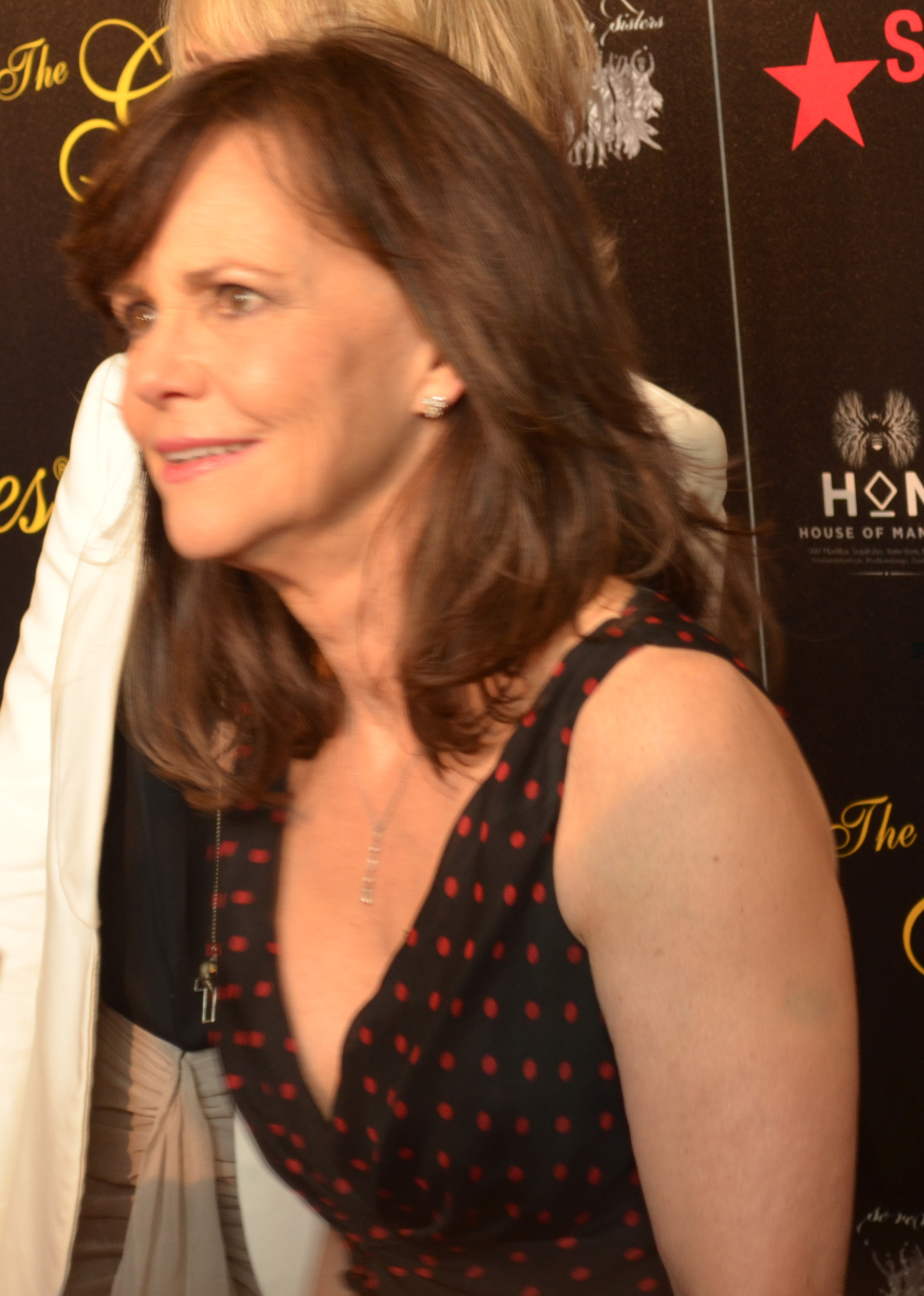 Sally Field at the 37th Annual Gracie Awards 2012.